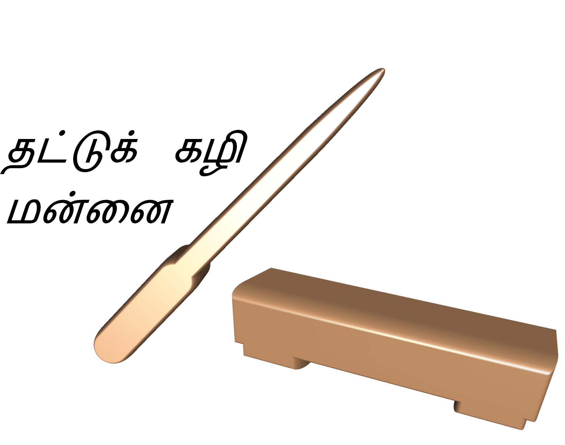 The thattukazhi and mannai are wooden block and baton used in Bharatanatyam, other South Indian dances, and Kalaripayirchi to keep rhythm